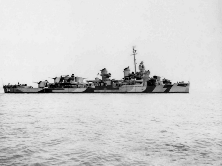 The U.S. Navy destroyer USS Thatcher (DD-514) off the Mare Island Naval Shipyard, California (USA), on 7 February 1944. Thatcher was in overhaul at Mare Island form 13 December 1943 until 10 February 1944. The ship is painted in Camouflage Measure 31, Design 2C.